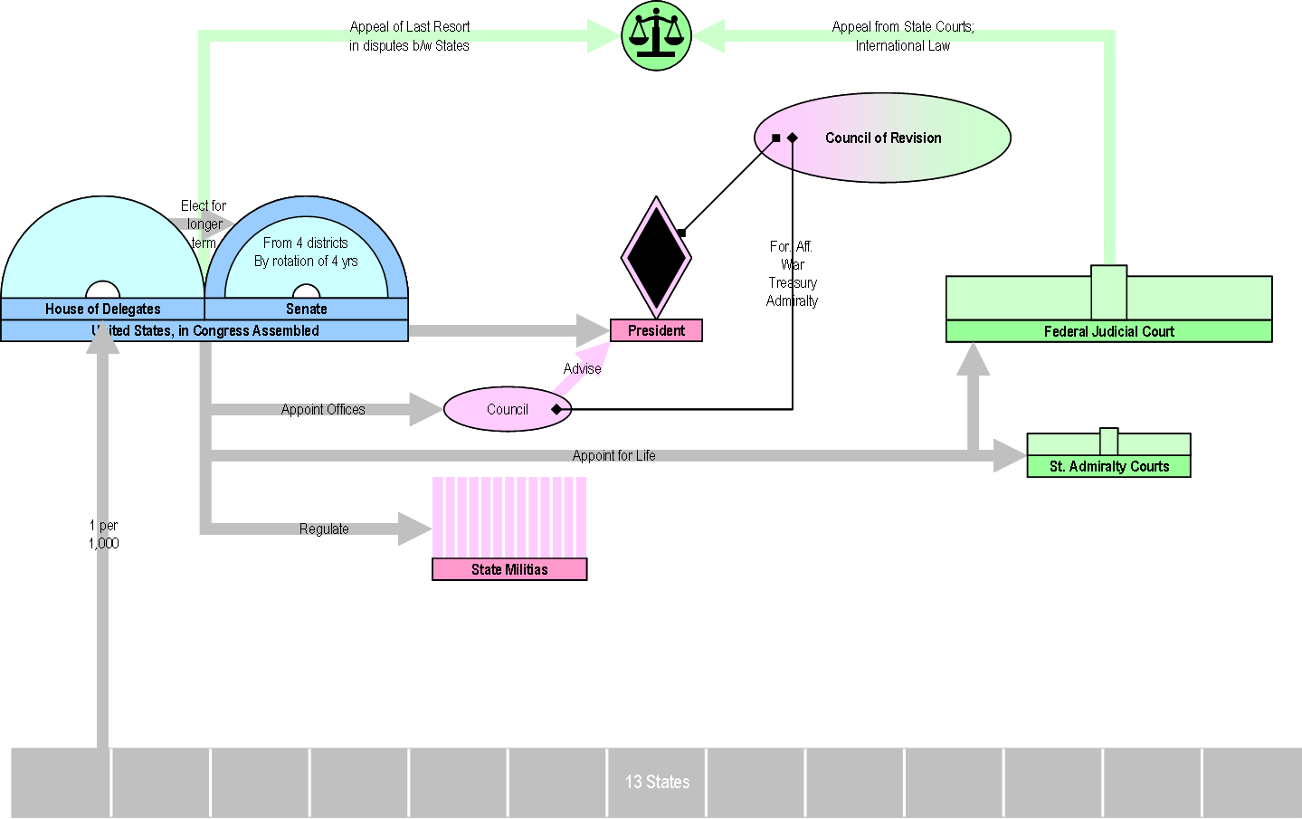 A diagram of the Pinckney Plan presented at the Constitutional Convention in the United States in 1787.